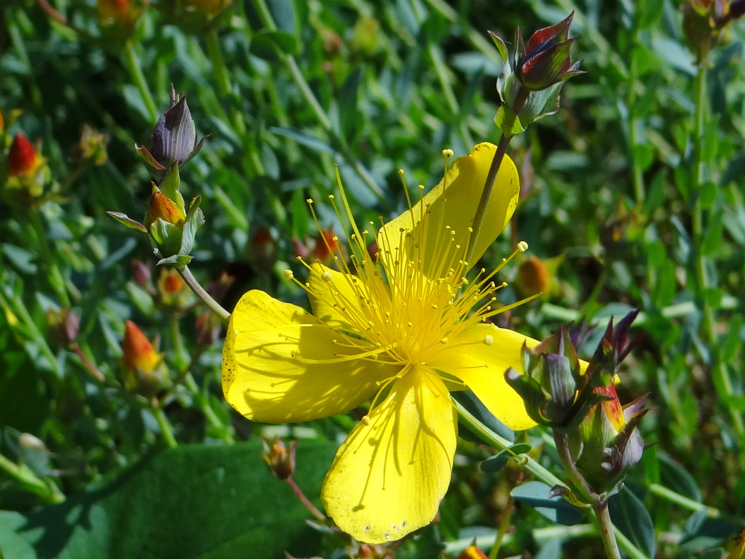 Hypericum olympicum (location:Botanical Garden in Cracow)